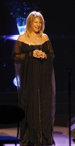 Barbra Streisand in concert, o2 Arena, London